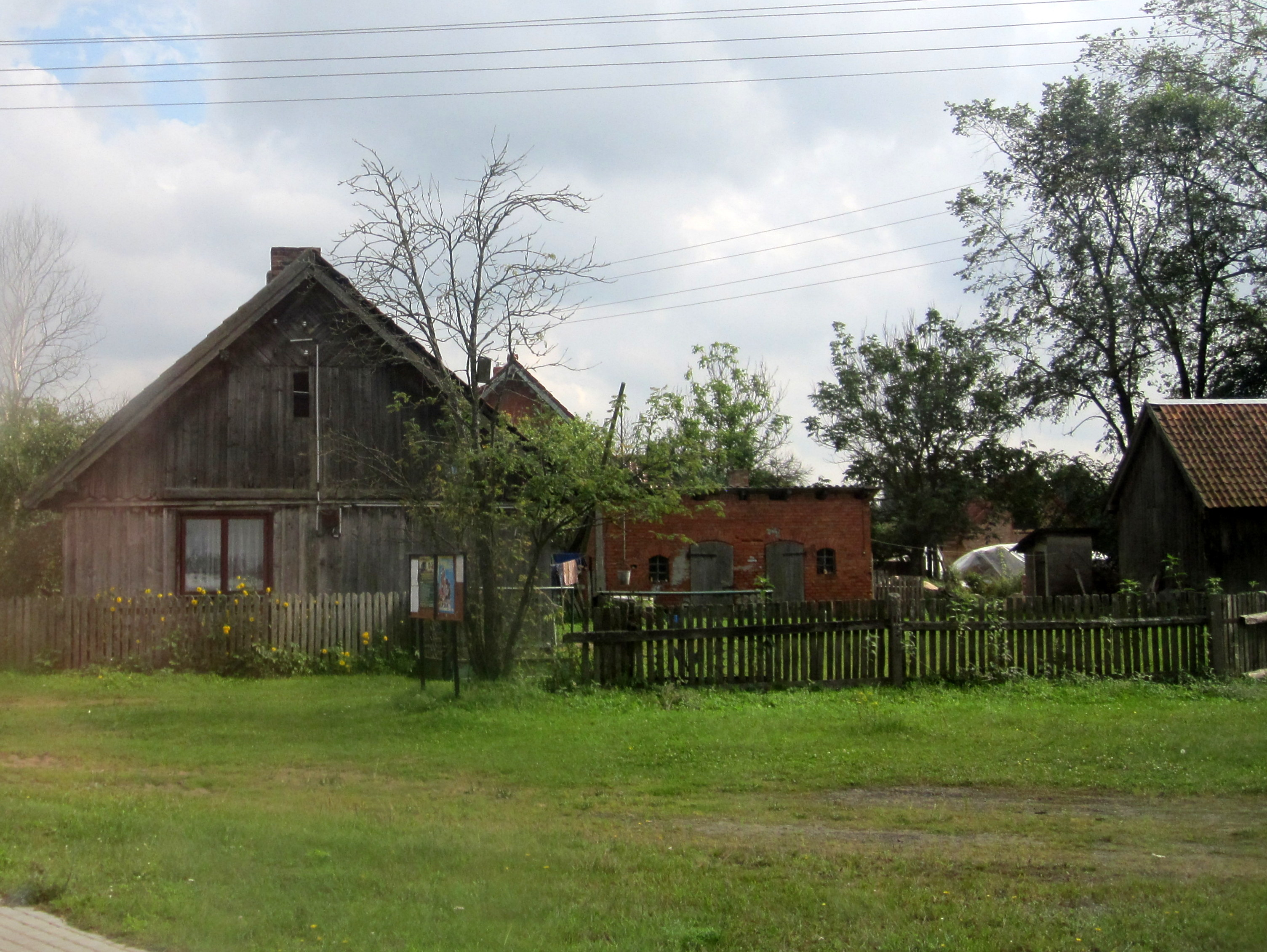 Building in Kwiatuszki Wielkie